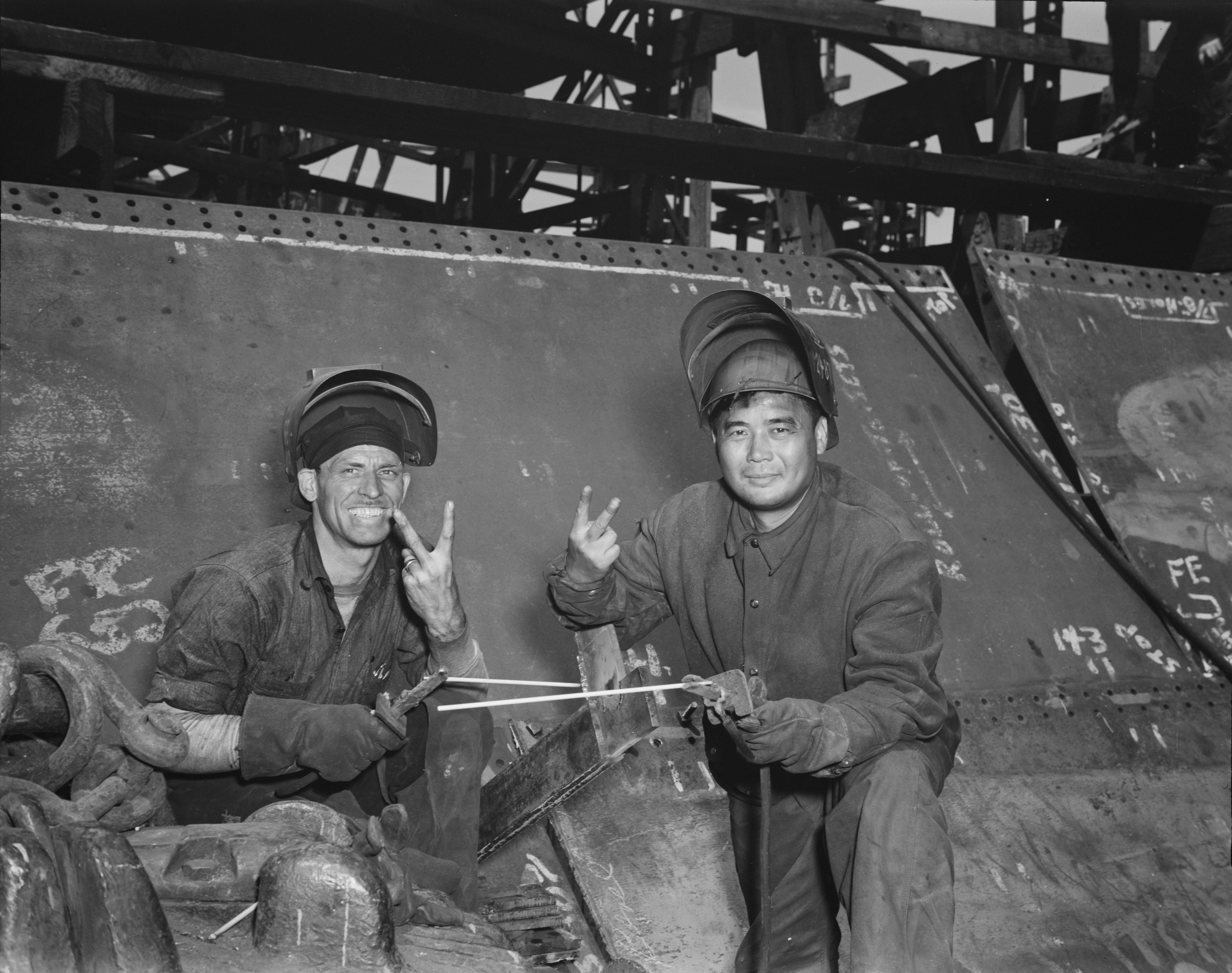 Electric welders at work on the Liberty ship SS Frederick Douglass at the Bethlehem-Fairfield shipyards in Baltimore, Maryland. (Title of photo should indicate SS Frederick Douglass instead of USS Frederick Douglass.) Library of Congress Reproduction Number: LC-USW3-024147-C.